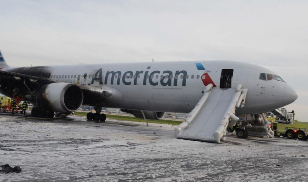 American Airlines Flight 383（N345AN）wreckage2